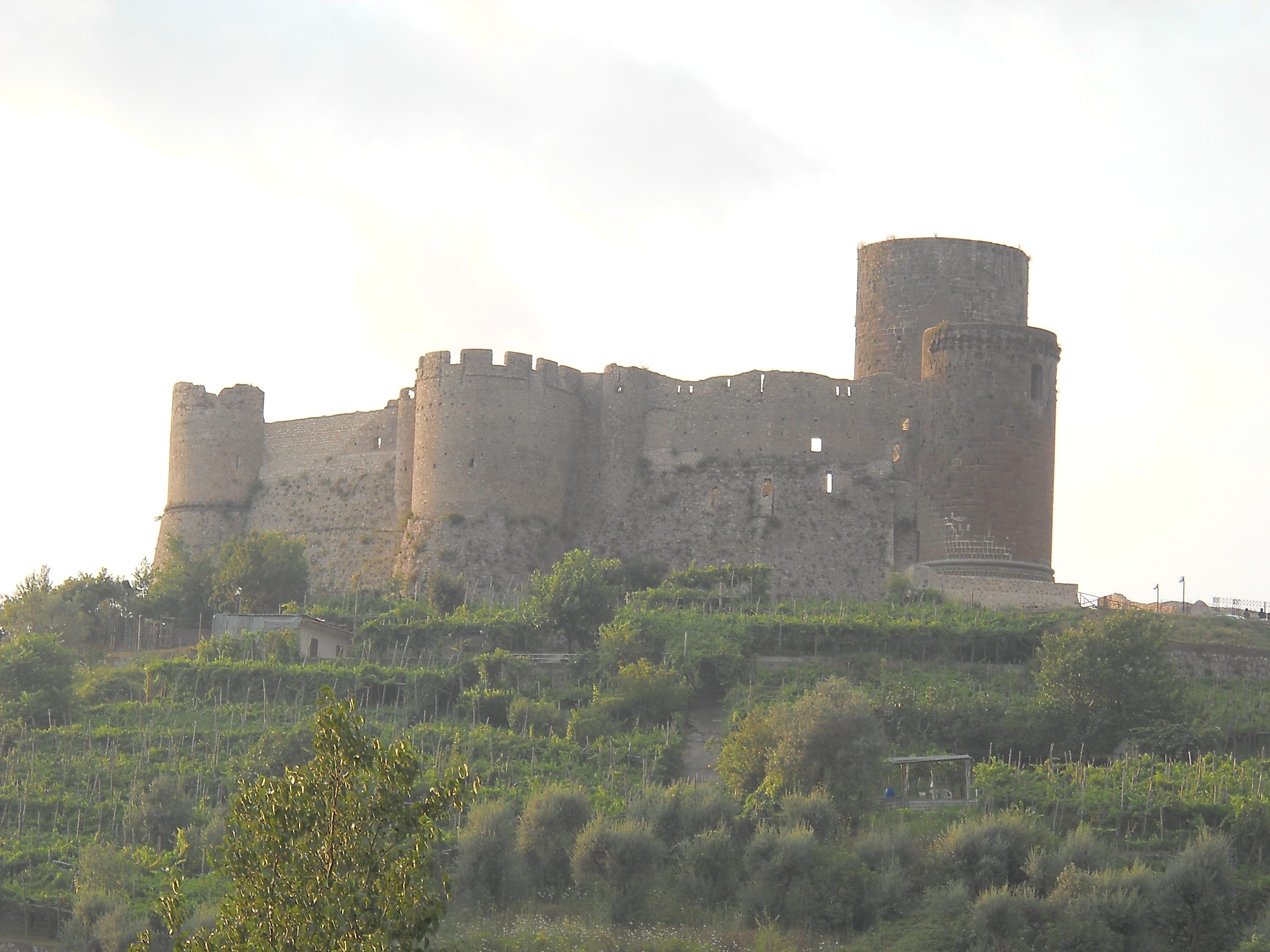 the castel of Lettere